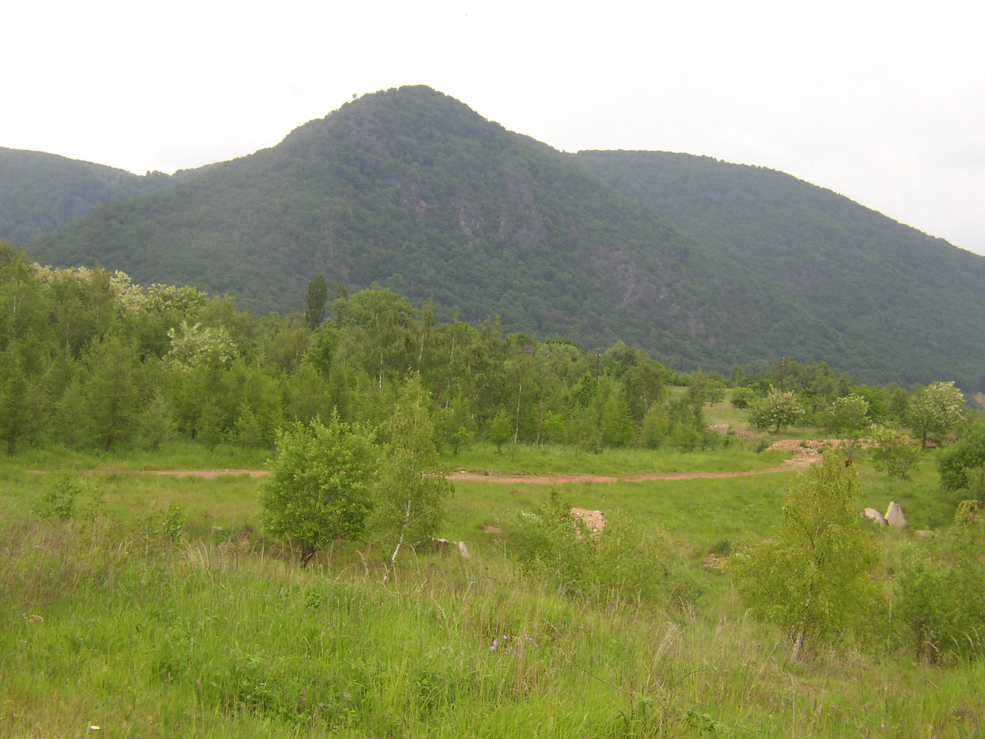 Southern face of Mt. Jezeří (aka Jezerka, 706 m) in Ore Mountains near Vysoká Pec (Chomutov District) and Horní Jiřetín (Most District), Ústí nad Labem Region, Czech Republic. This is a fair typical example of abrupt transition between Ore Mountains and North Bohemian Basin - southern side of the mountain chain rises about 400+ altitude metres above the plain.